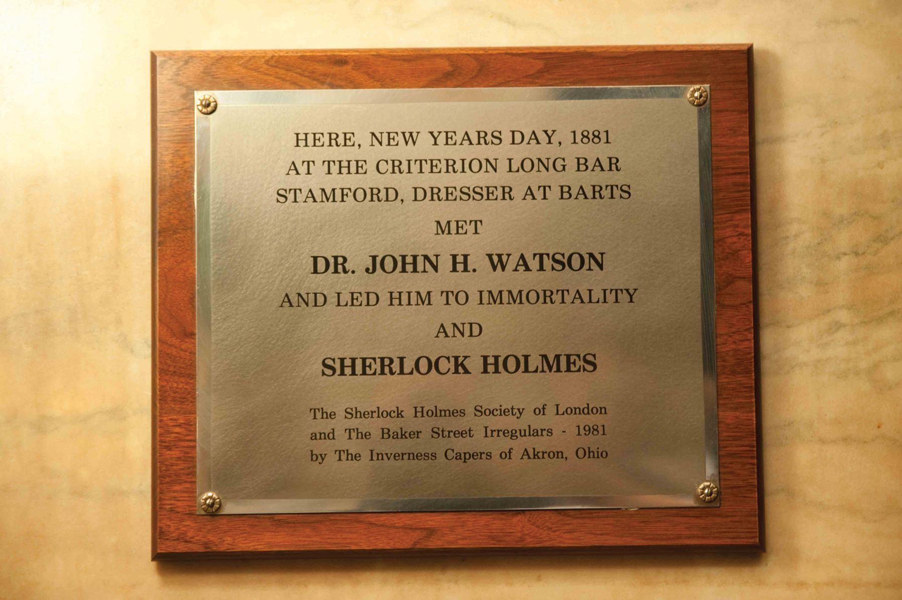 A plaque commemorating the meeting between Dr. Watson and Stamford